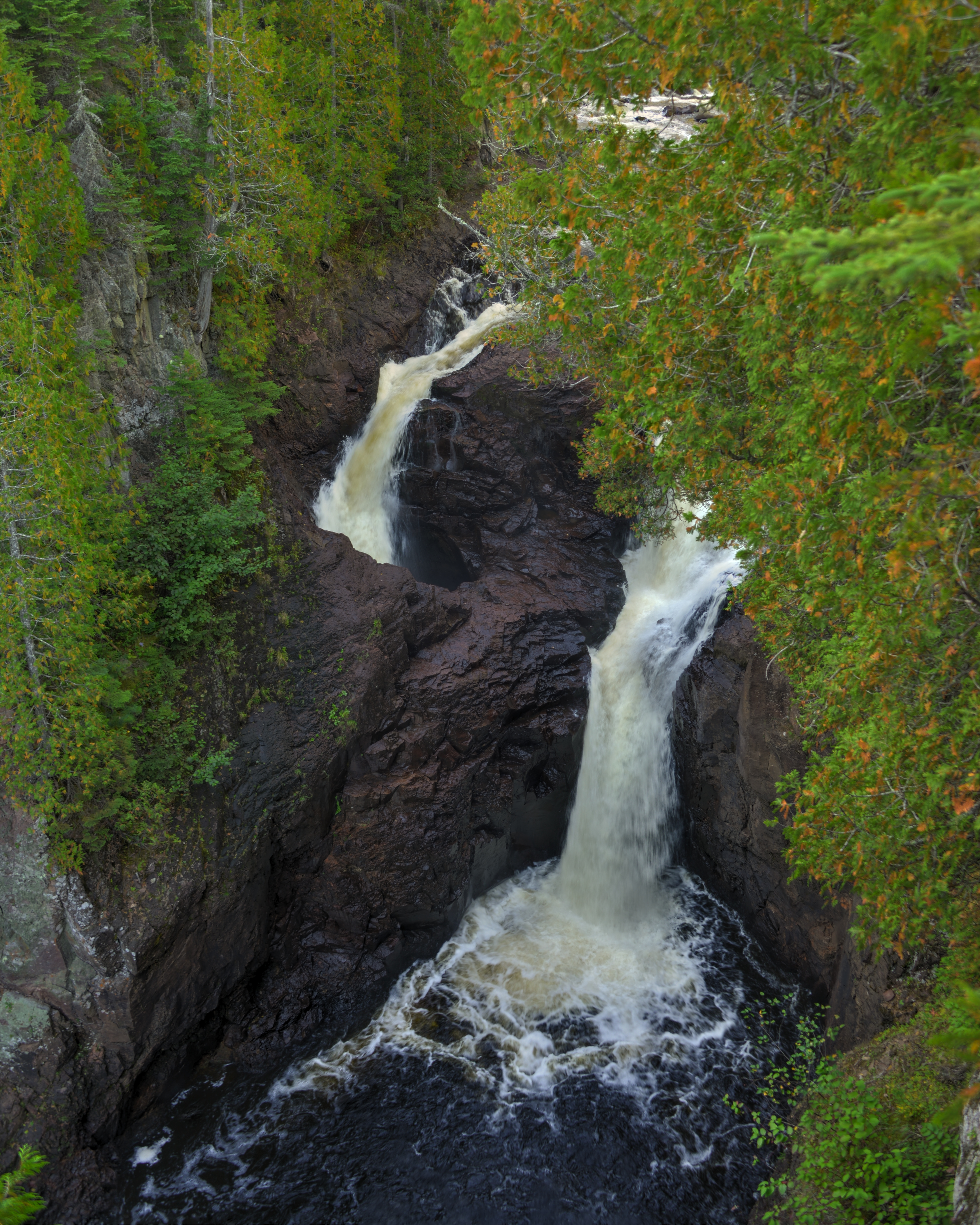 The Devil's Kettle, an odd formation at a waterfall on the Brule River a little ways above Lake Superior.